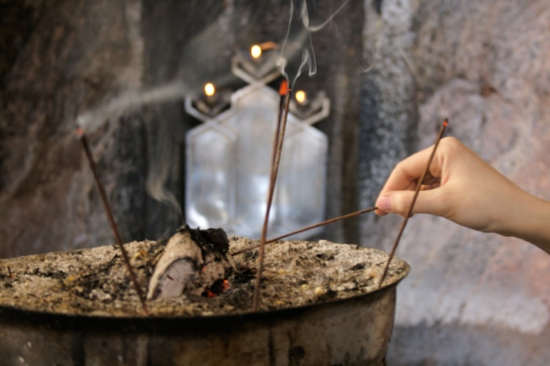 Incense sticks, hand and Zoroastrian symbol in Chak Chak, Yazd Province, Iran.